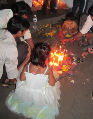 Ambedkar's death anniversary, 6 December, is observed as Mahaparinirvan Din. Lakhs of people across the nation throng Chaityabhoomi to pay homage to him on this day